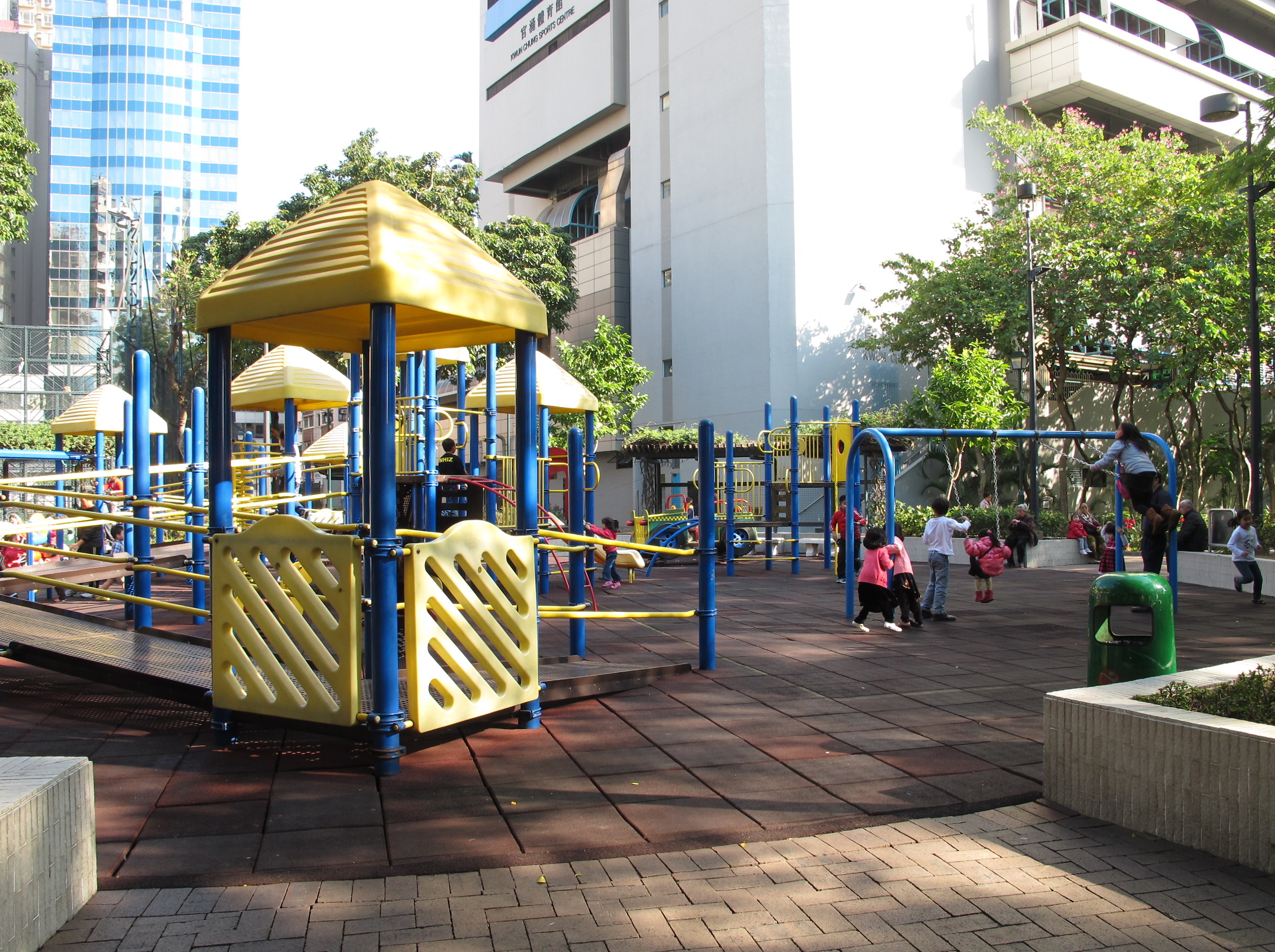 King George V Memorial Park, Kowloon